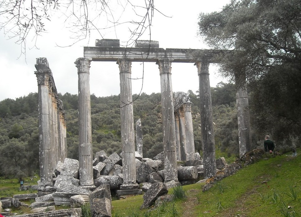 Zeus temple in Euromos, Turkey